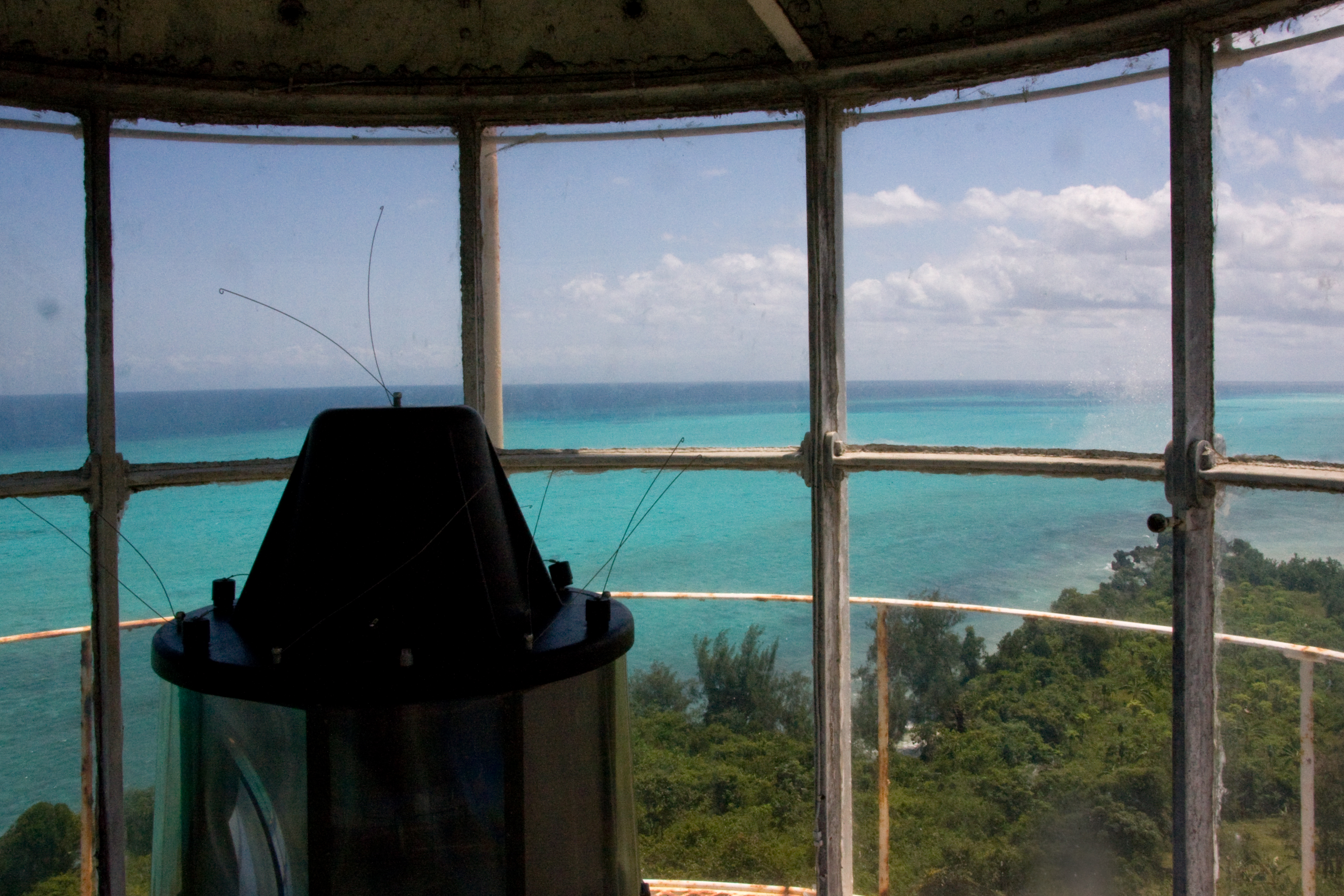 View from Ras Kigomasha Lighthouse in Pemba Tanzania